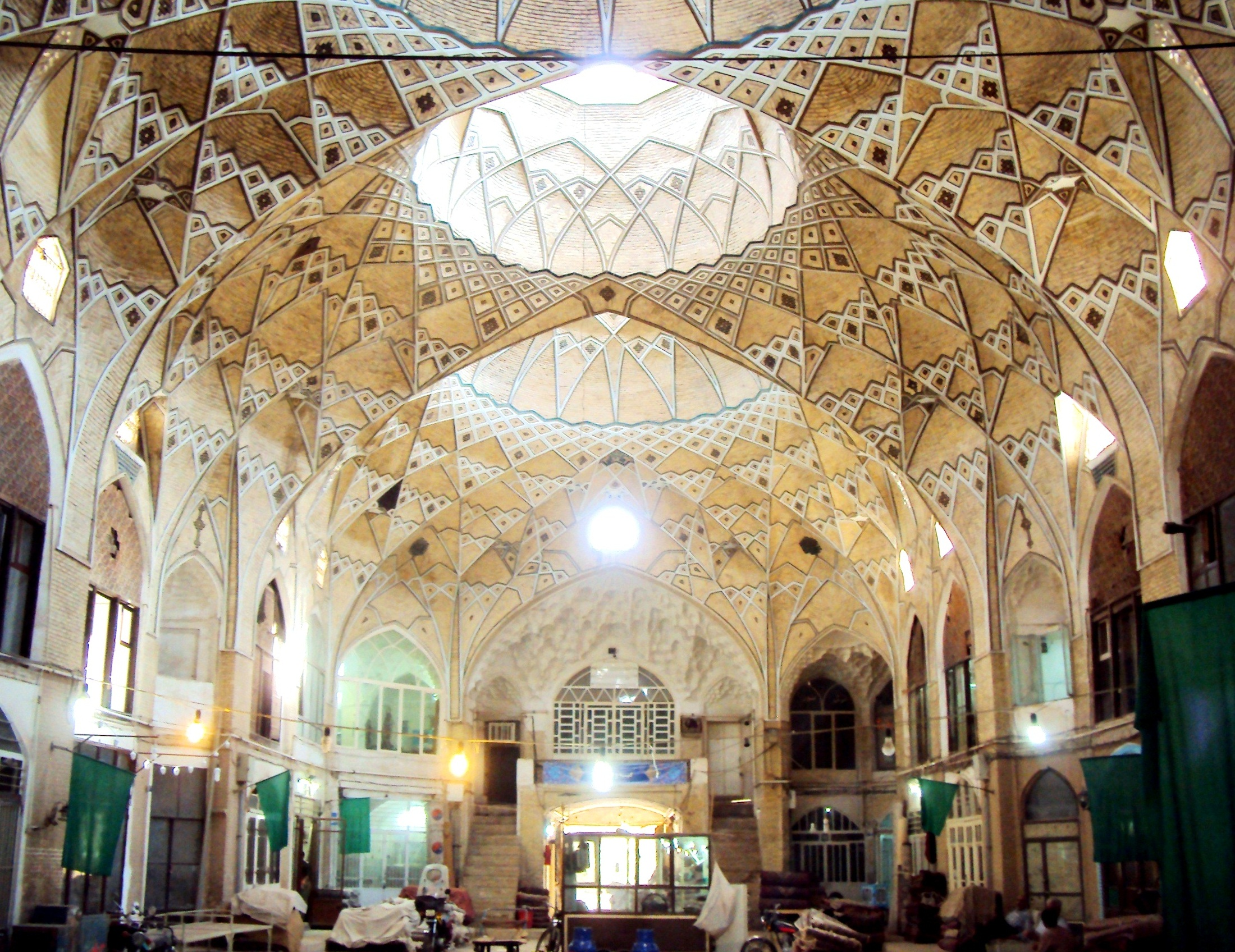 Carpet Arcade Of Qom